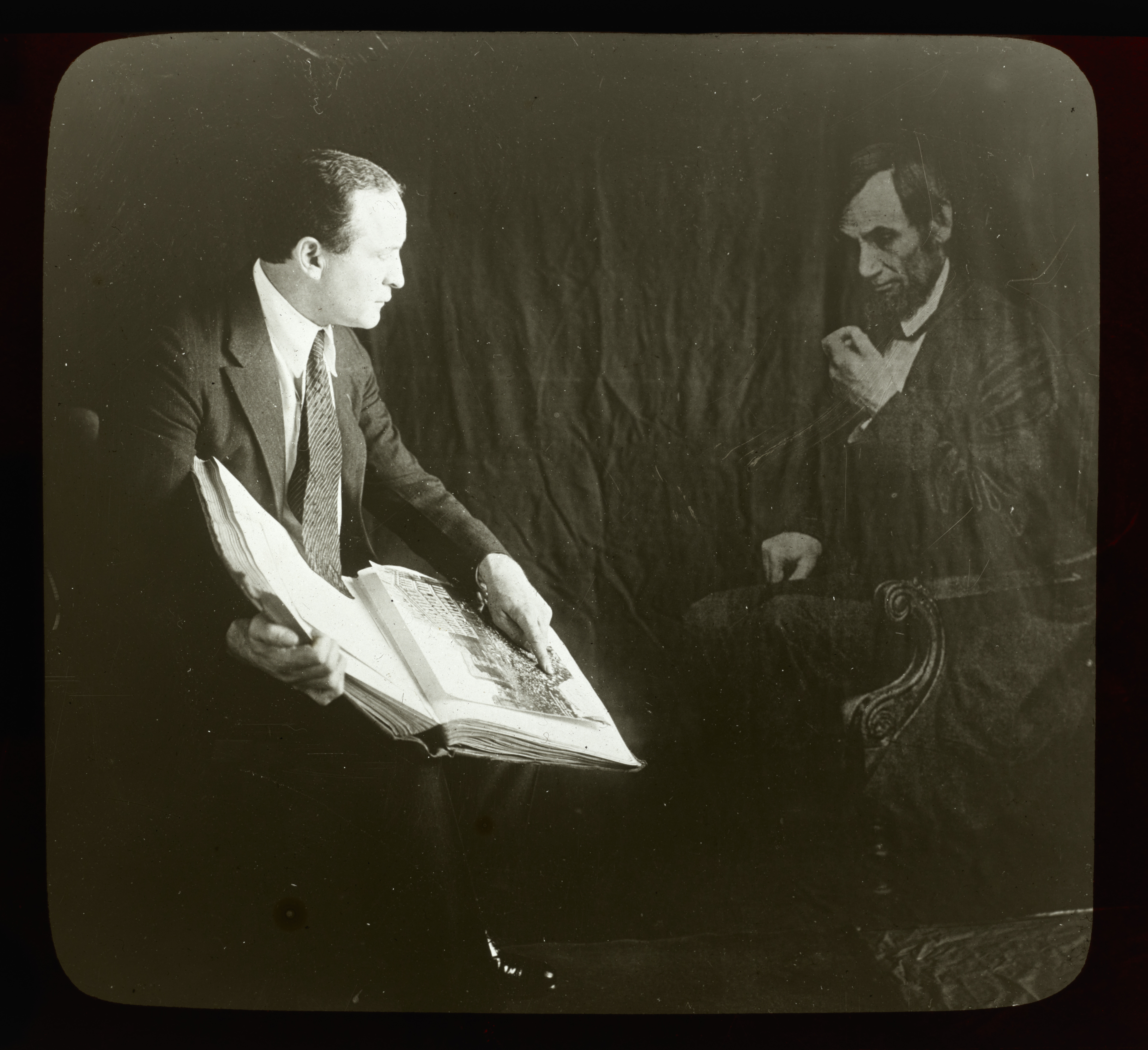 Houdini and the ghost of Abraham Lincoln, c. 1920-1930. Library of Congress